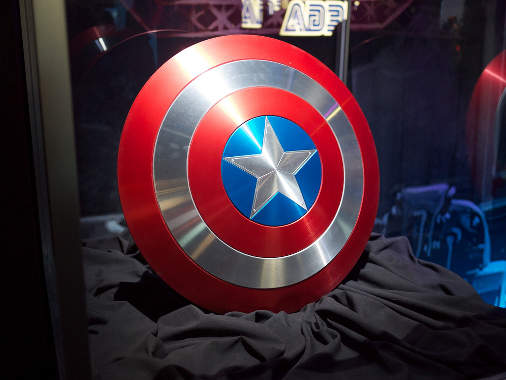 The Captian America's Shield